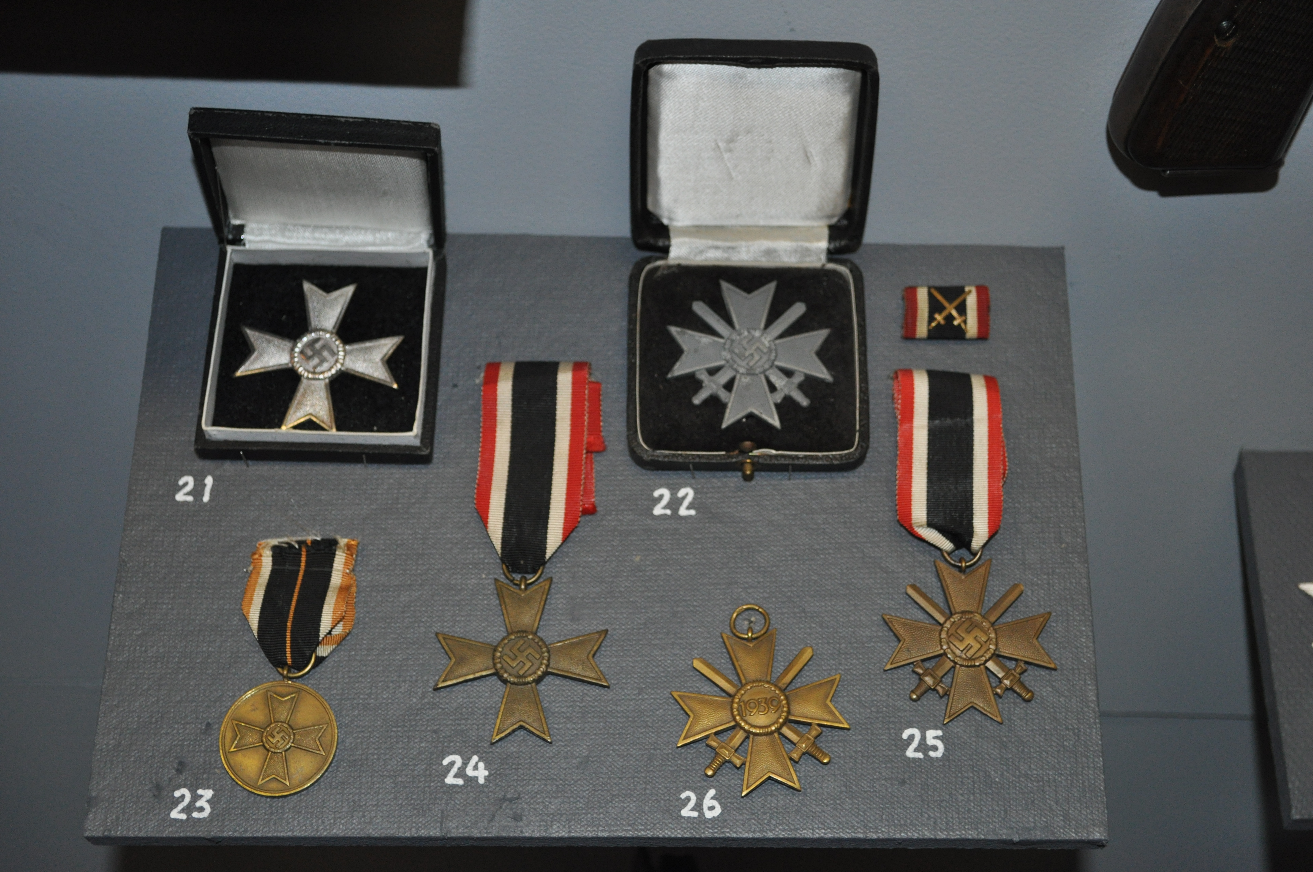 Military decorations of the Third Reich. Fort Lewis Military Museum, Fort Lewis, Washington, USA. 21. War Service Cross 1st Class without swords (non-combat) 22. War Service Cross 1st Class with swords (combat service) 23. War Merit medal (Civil service) 24. War Service Cross 2nd Class without swords 25. War Service Cross 2nd Class with swords and ribbon bar above 26. War Service Cross 2nd Class (back side) Identifications based on File:FLMM - Nazi badges & insignia list.jpg.